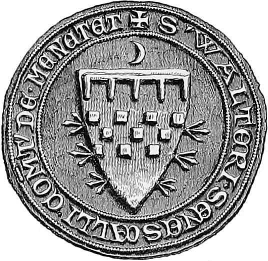 Seal of Walter Stewart, Earl of Menteith (died ×1296).